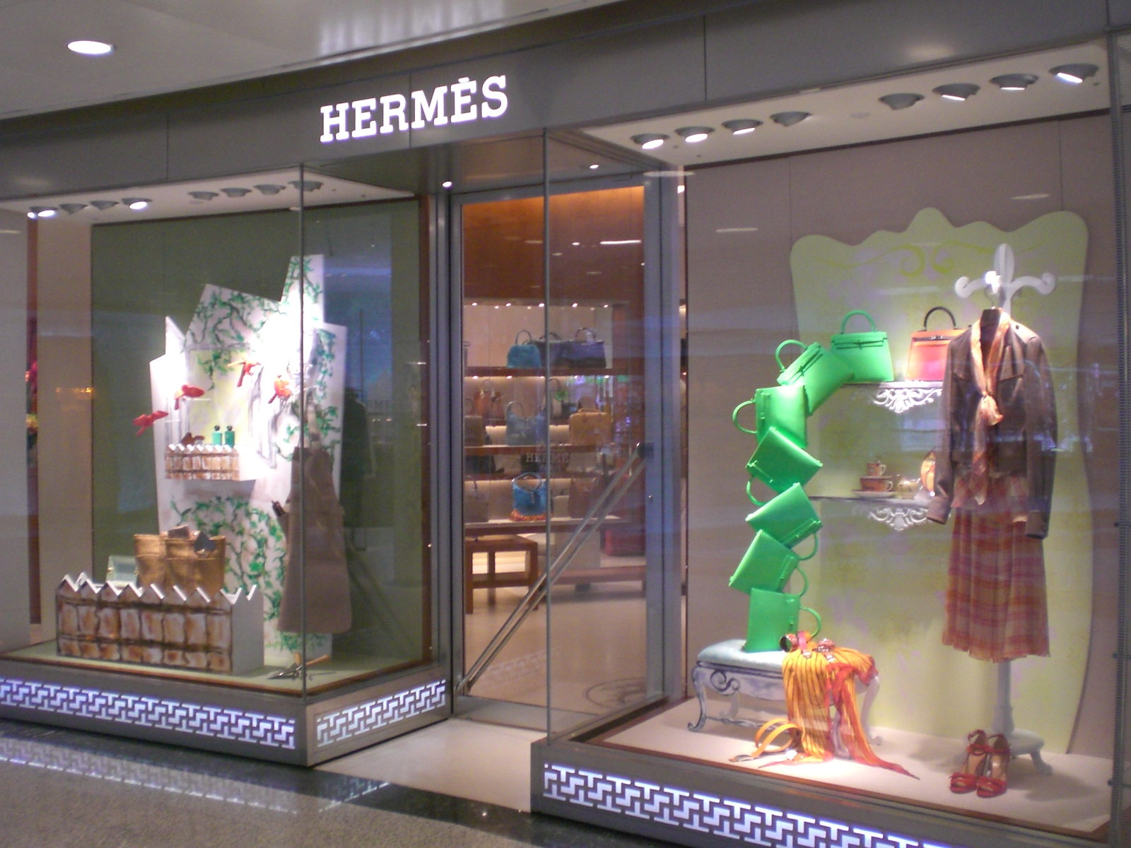 Author= Kwanyatsw Hermès, 愛馬仕